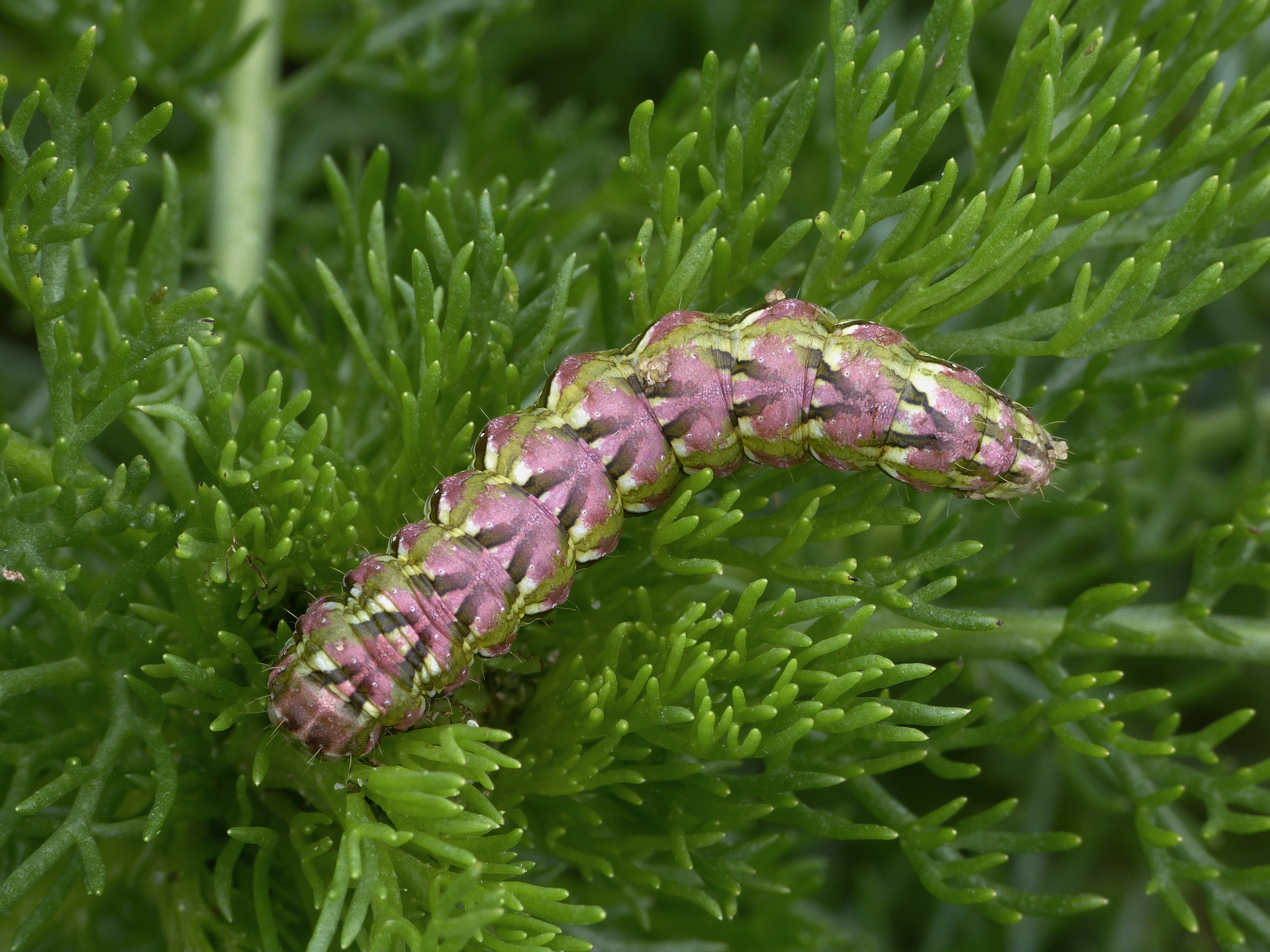 Gann estuary, Pembrokeshire. One of many larvae found here, feeding on sea mayweed (Tripleurospermum maritimum).